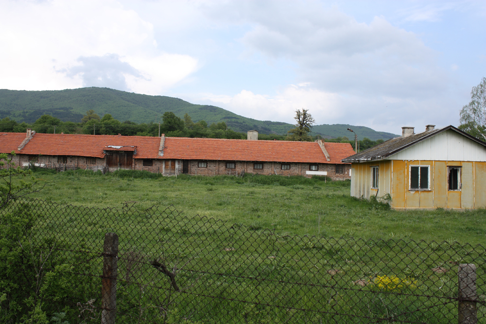 Buildings (cowsheds) of the former cooperative farm in Ochusha village, Bulgaria